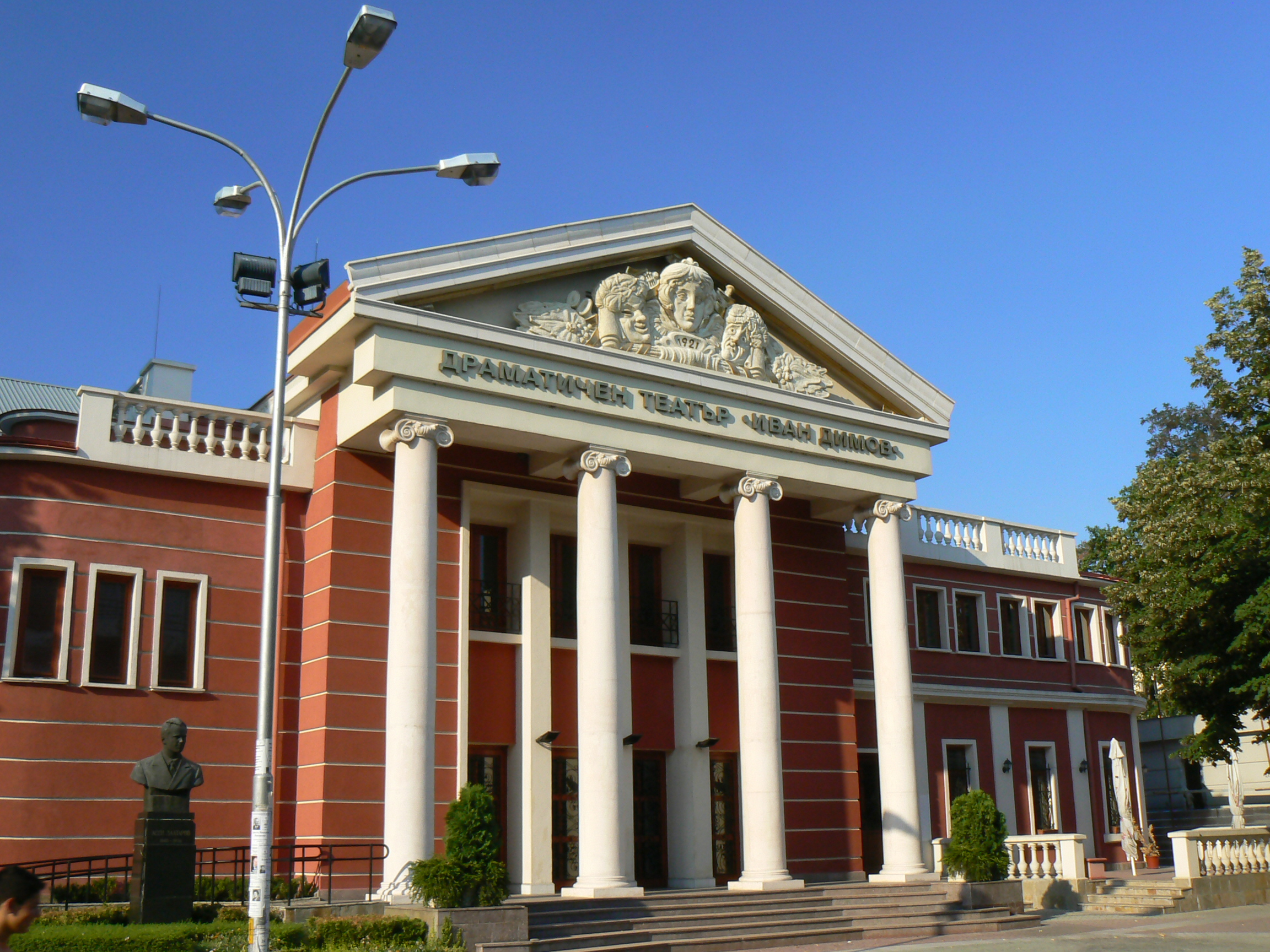 Drama theater "Ivan Dimov" in Haskovo, Bulgaria